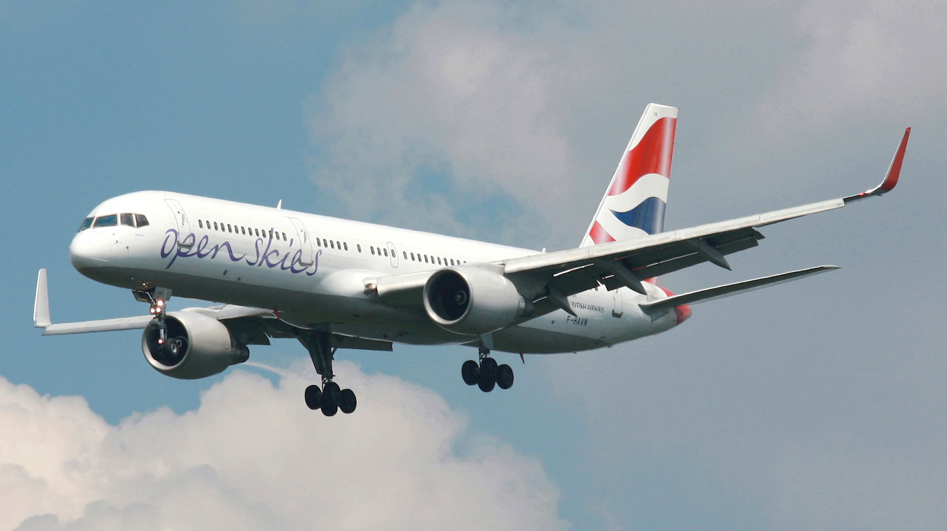 A Boeing 757-200 of OpenSkies landing at Frankfurt Airport F-HAVN